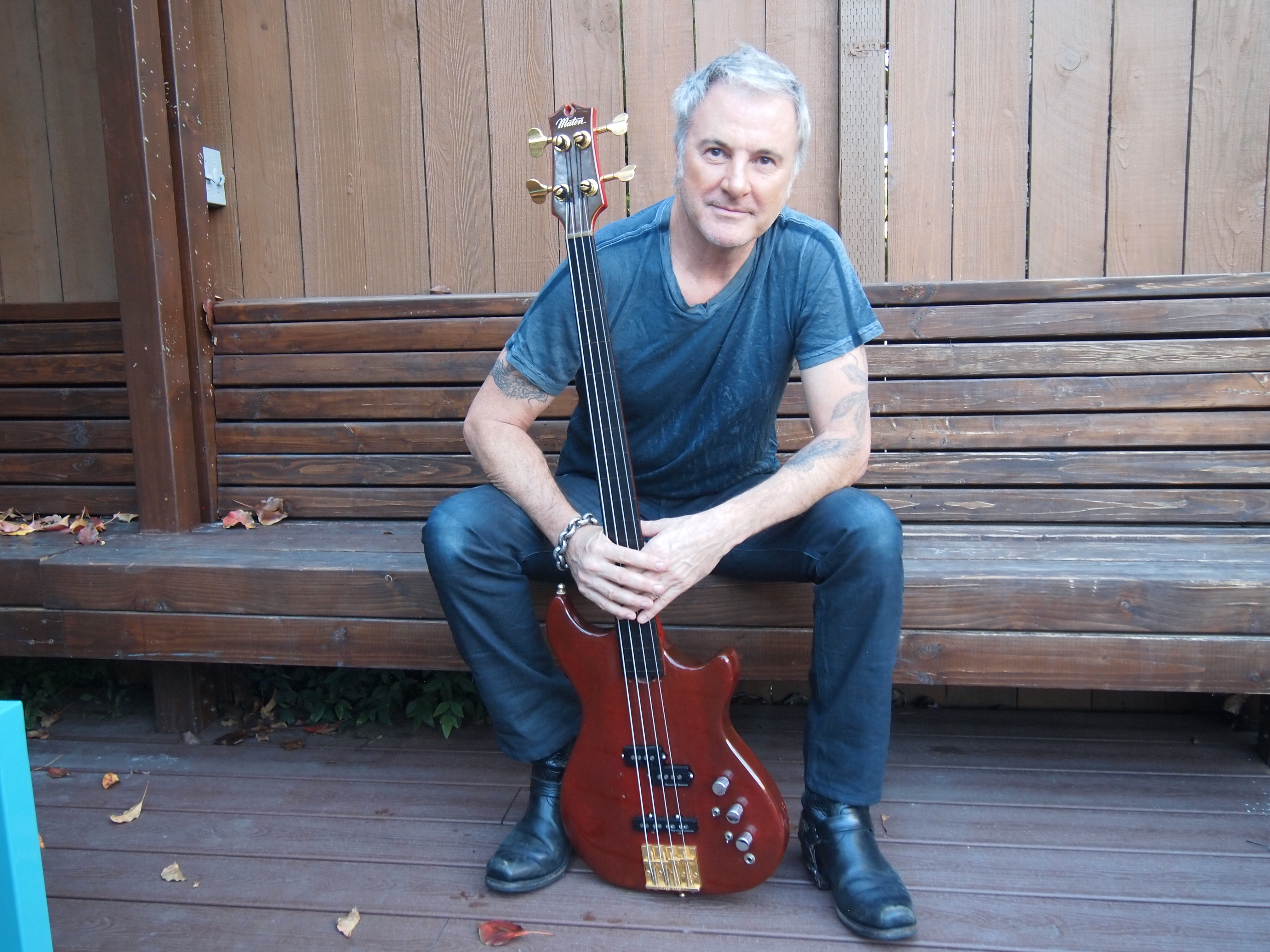 Garry holding Bass